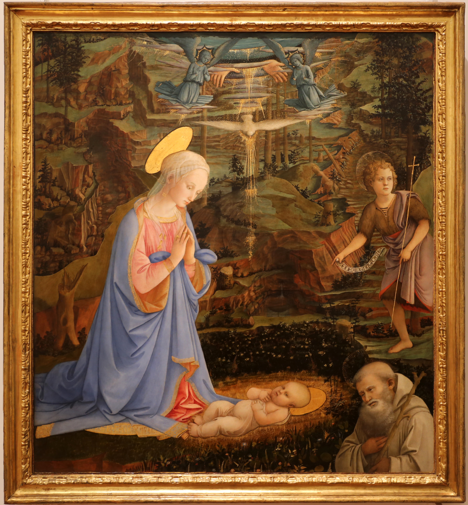 Camaldoli Nativity of Jesus Christ by Filippo Lippi